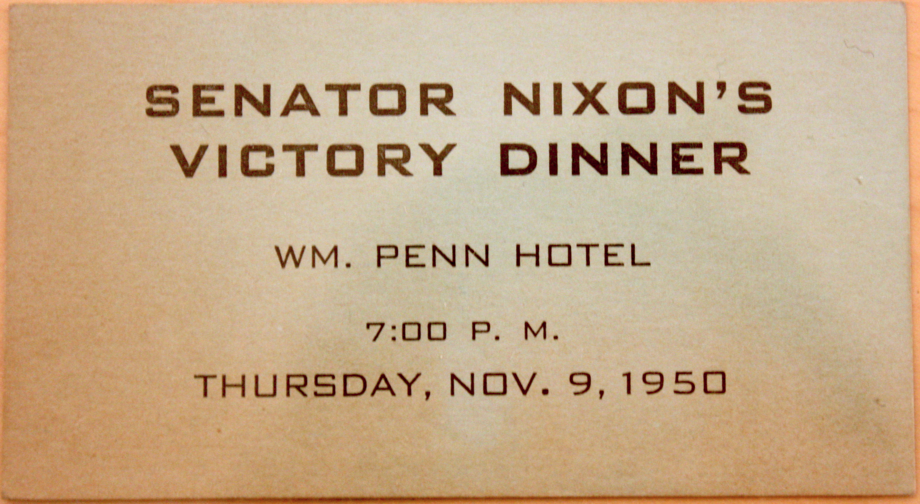 Ticket to Richard Nixon victory dinner at the William Penn Hotel following the 1950 United States Senate election in California.